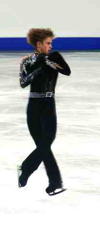 Andrei Lutai on the 2007 European Figure Skating Championships in Warsaw - free skate